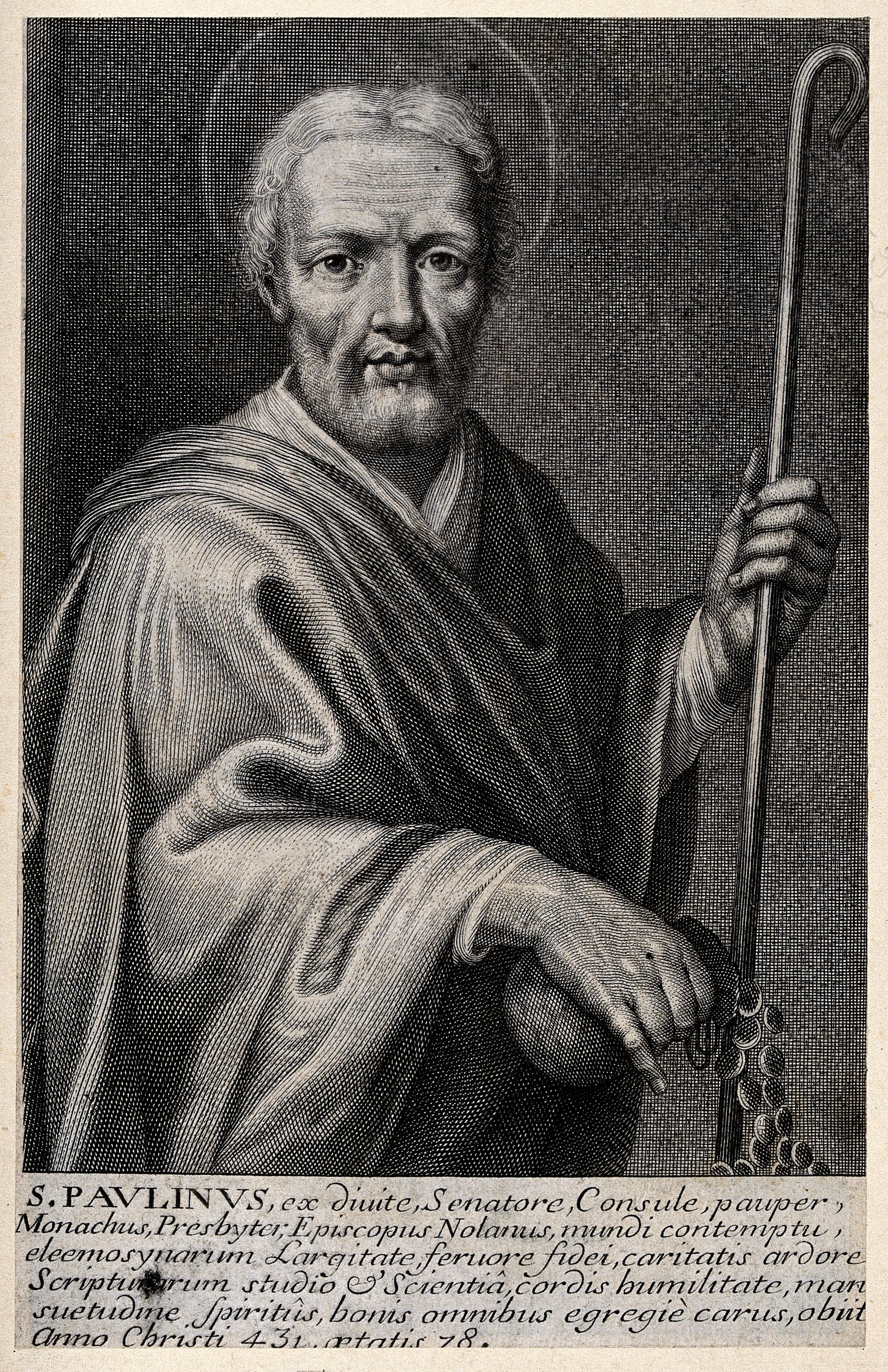 Saint Paulinus of Nola. Line engraving. Iconographic Collections